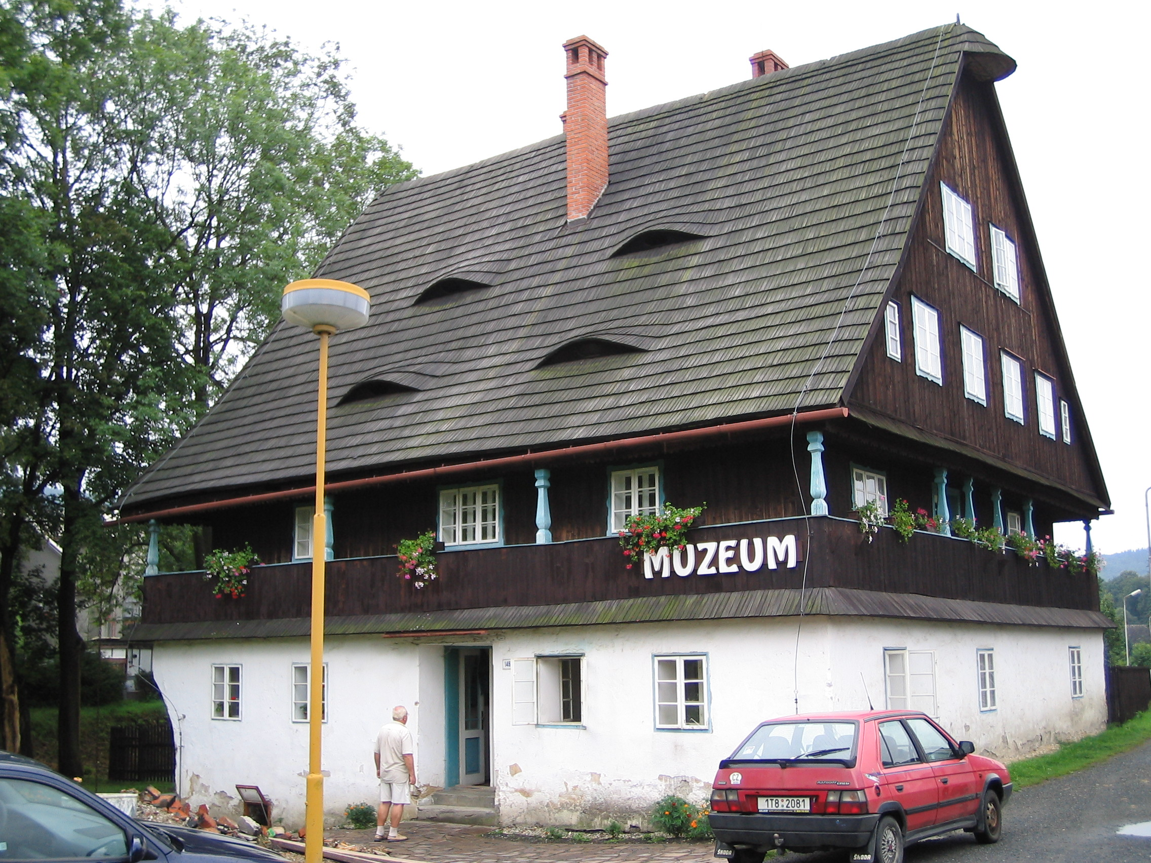 Former scythe factory in Karlovice